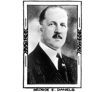 George Emory Daniels in 1914. Daniels (1875-1954) was at that time president and general manager of the Oakland Motor CVar Co., a subsidiary of General Motors. In 1916, he founded his own company, Daniels Motor Car Co. in Reading (1916-194) which he left in 1922 to head the Locomobile Co. of America.